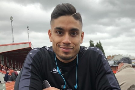 Photo taken by myself of Aman Verma following the Tamworth Vs. Halesowen Town game on March 2 2019 at The Lamb Ground.